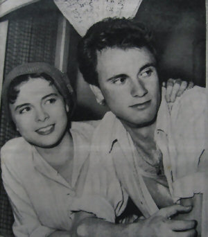 photo from Italian magazine Avanguardia, 11 March 1956, p. 1.